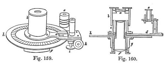 Perspective and section views of the goniometer invented by Henry Beaumont Leeson; reproduced in John Quekett, A Practical Treatise on the use of the Microscope (1852).